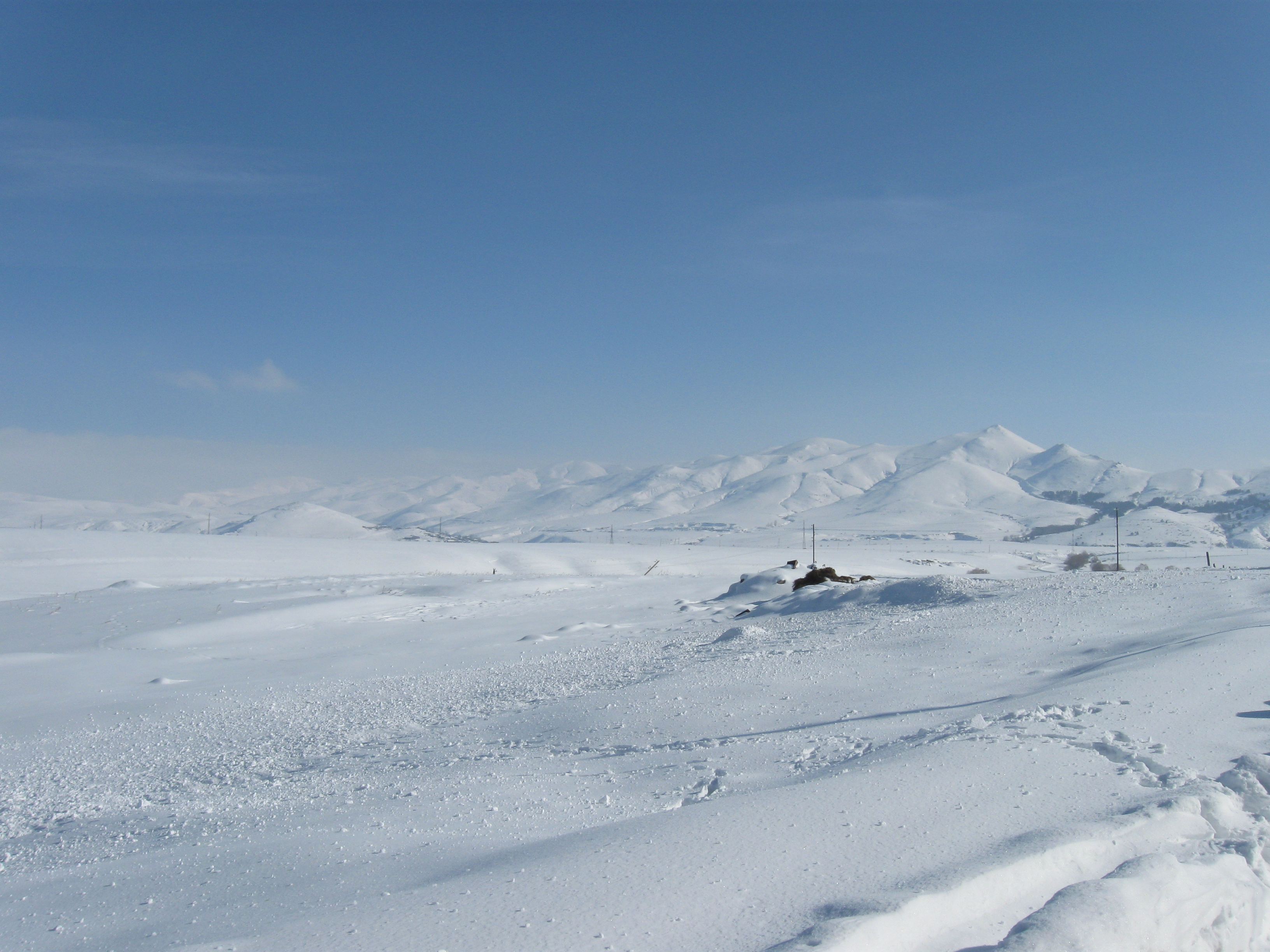 Shirak Mountain Range, 2556 m.. Shirak Province, Armenia